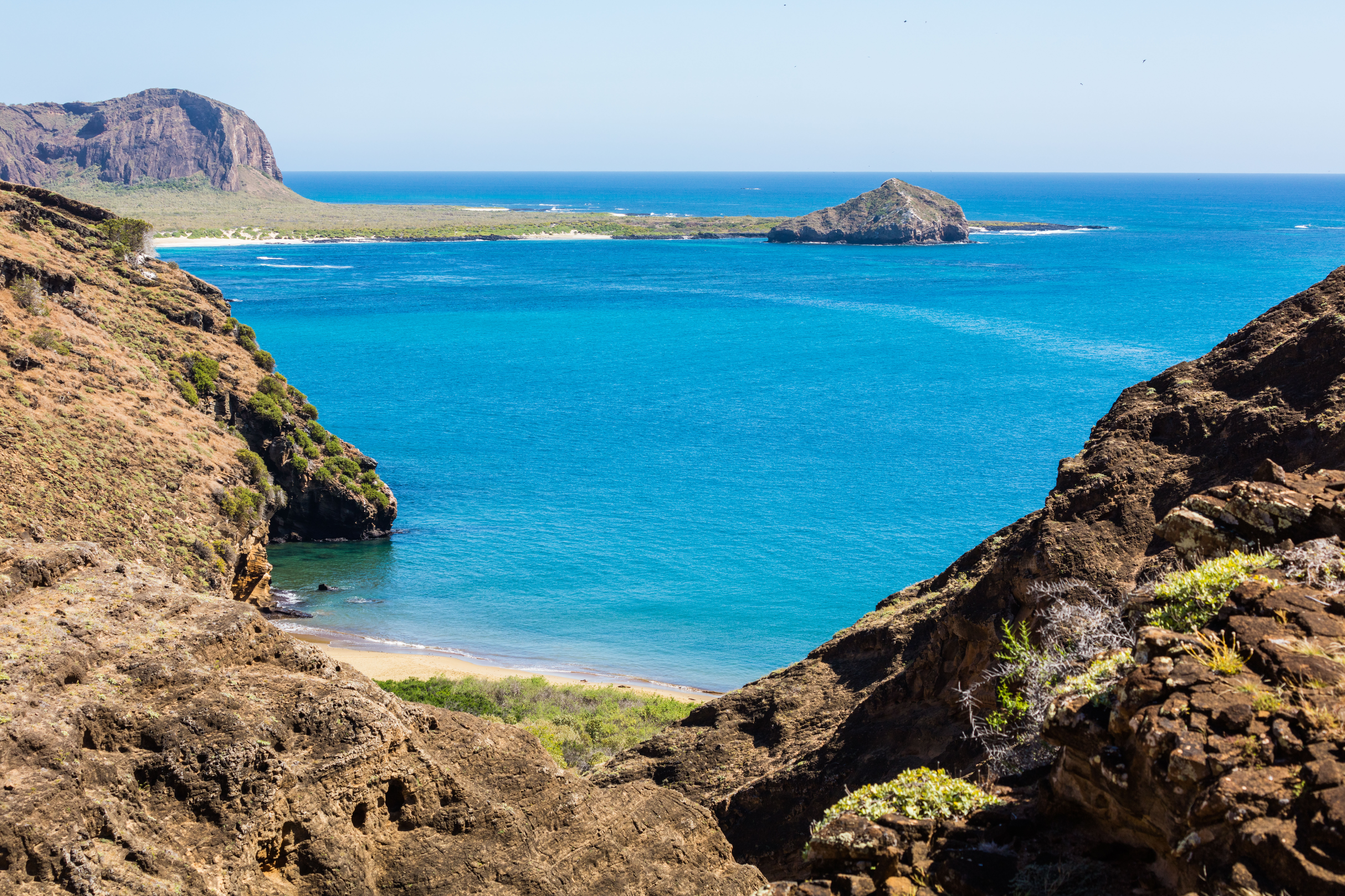 View of Punta Pitt, San Cristobal Island, Galapagos Islands, Ecuador